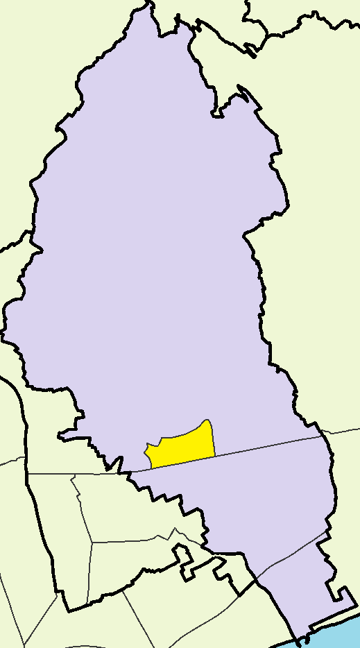 Αpostle Lyke in Agios Athanasios Municipality.